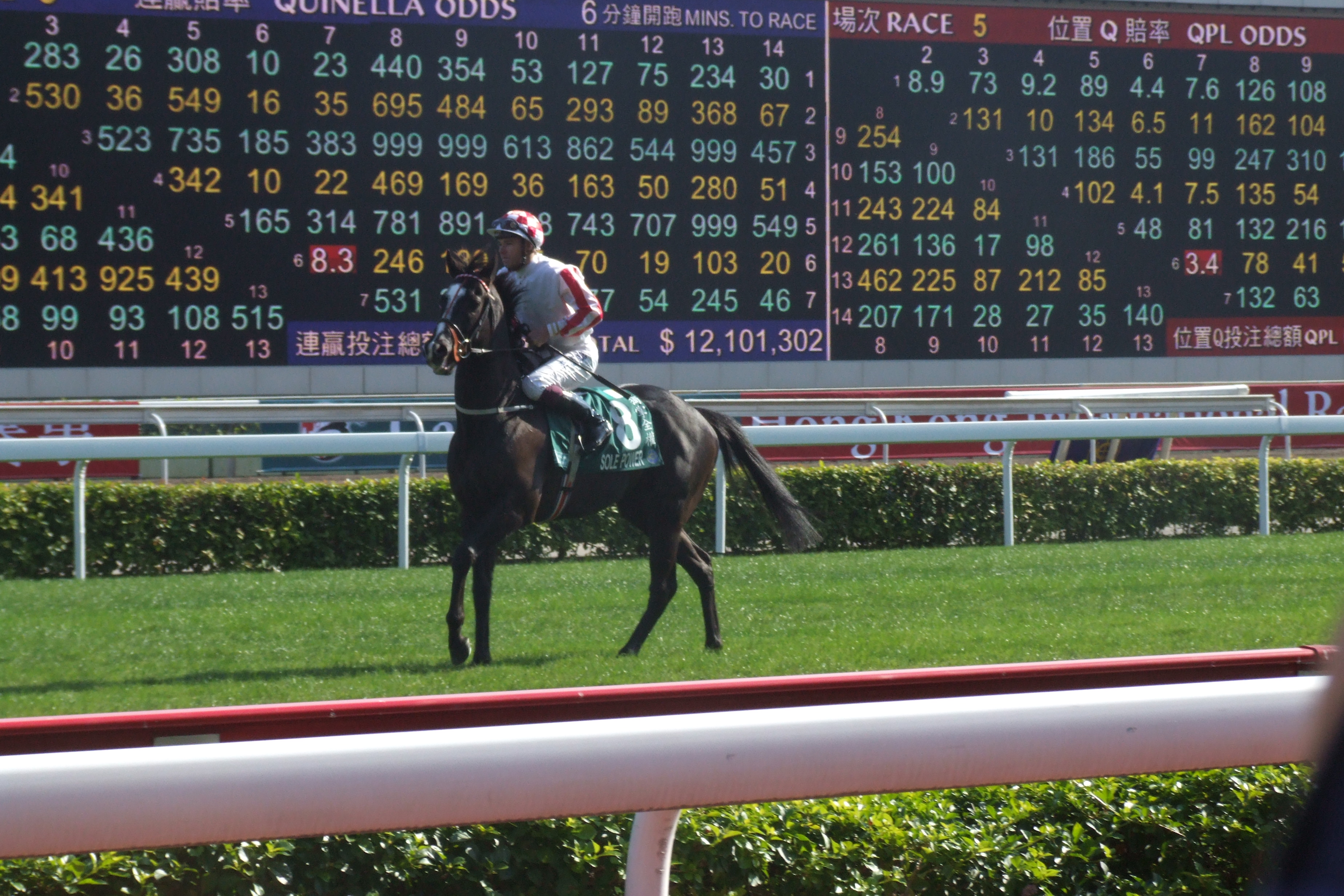 Sole Power, won 2010 Nunthorpe Stakes with 100-1 longshot.